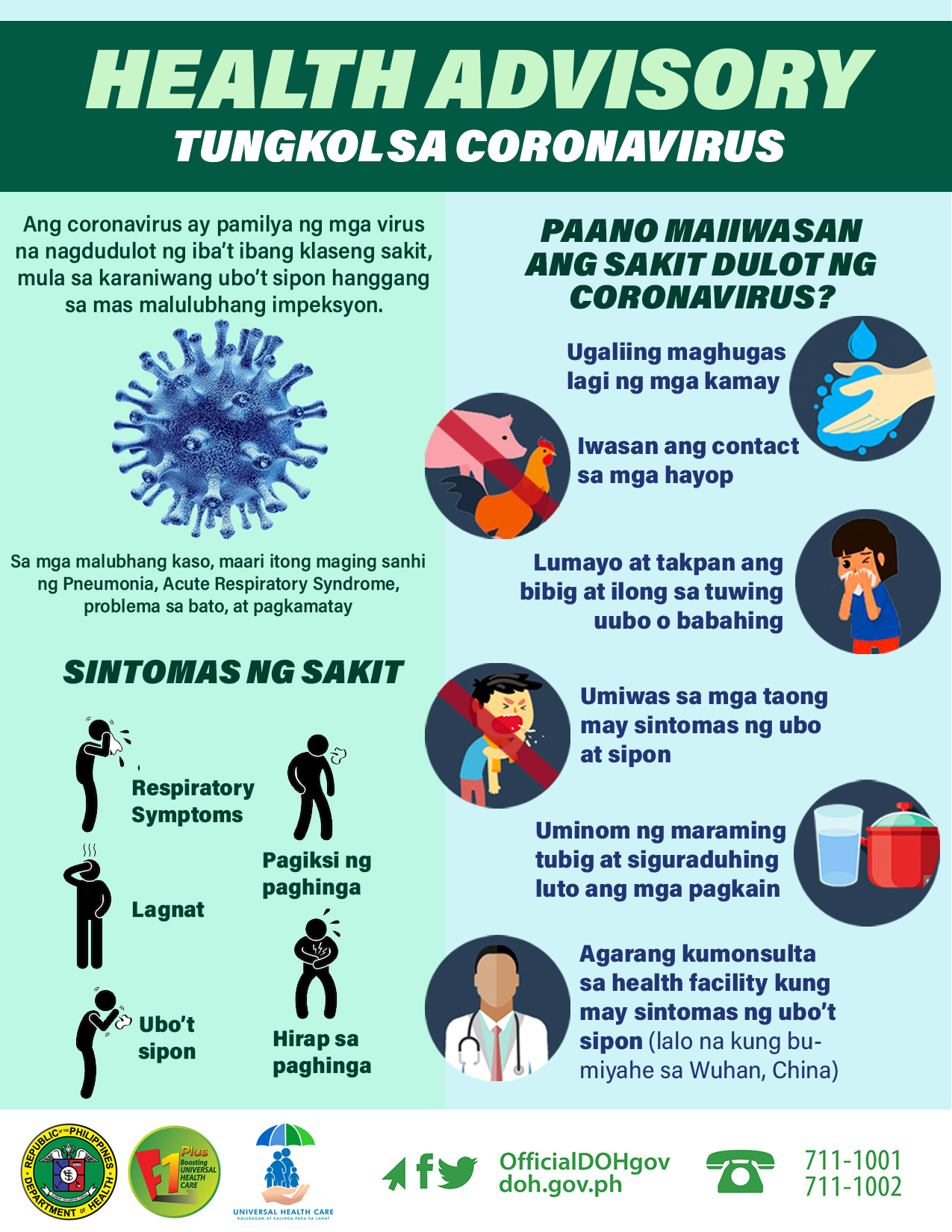 Health Advisory infographic in Tagalog released by the Philippine Department of Health regarding the 2019 novel coronavirus (2019-nCoV).